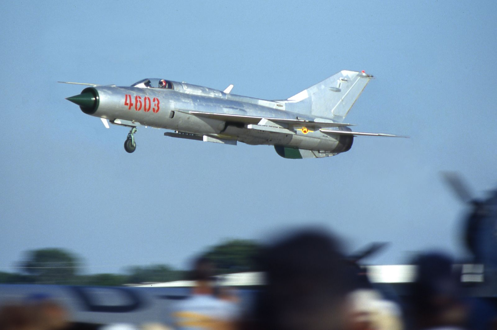 A Mikoyan-Gurevich MiG-21 at AirVenture 1989.